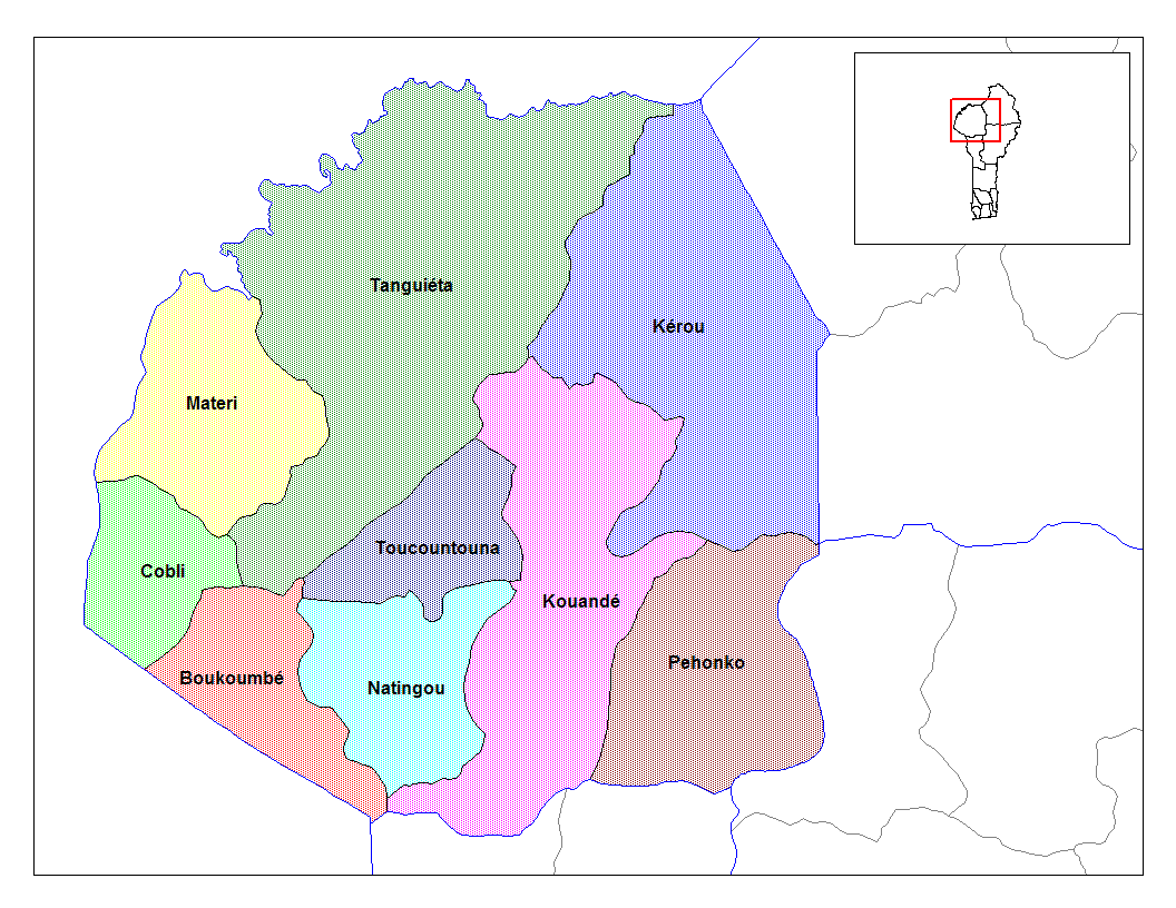 Map of the communes of the department of Atakora, Benin. Created by Rarelibra for public domain use. Created using MapInfo Professional v7.5 and various mapping resources.